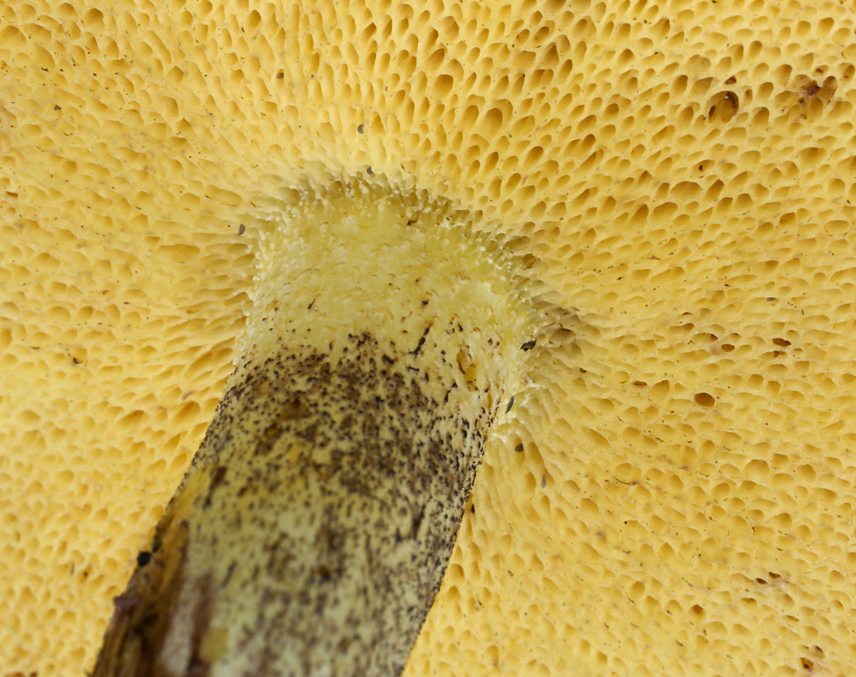 Weeping Bolete (Suillus granulatus)